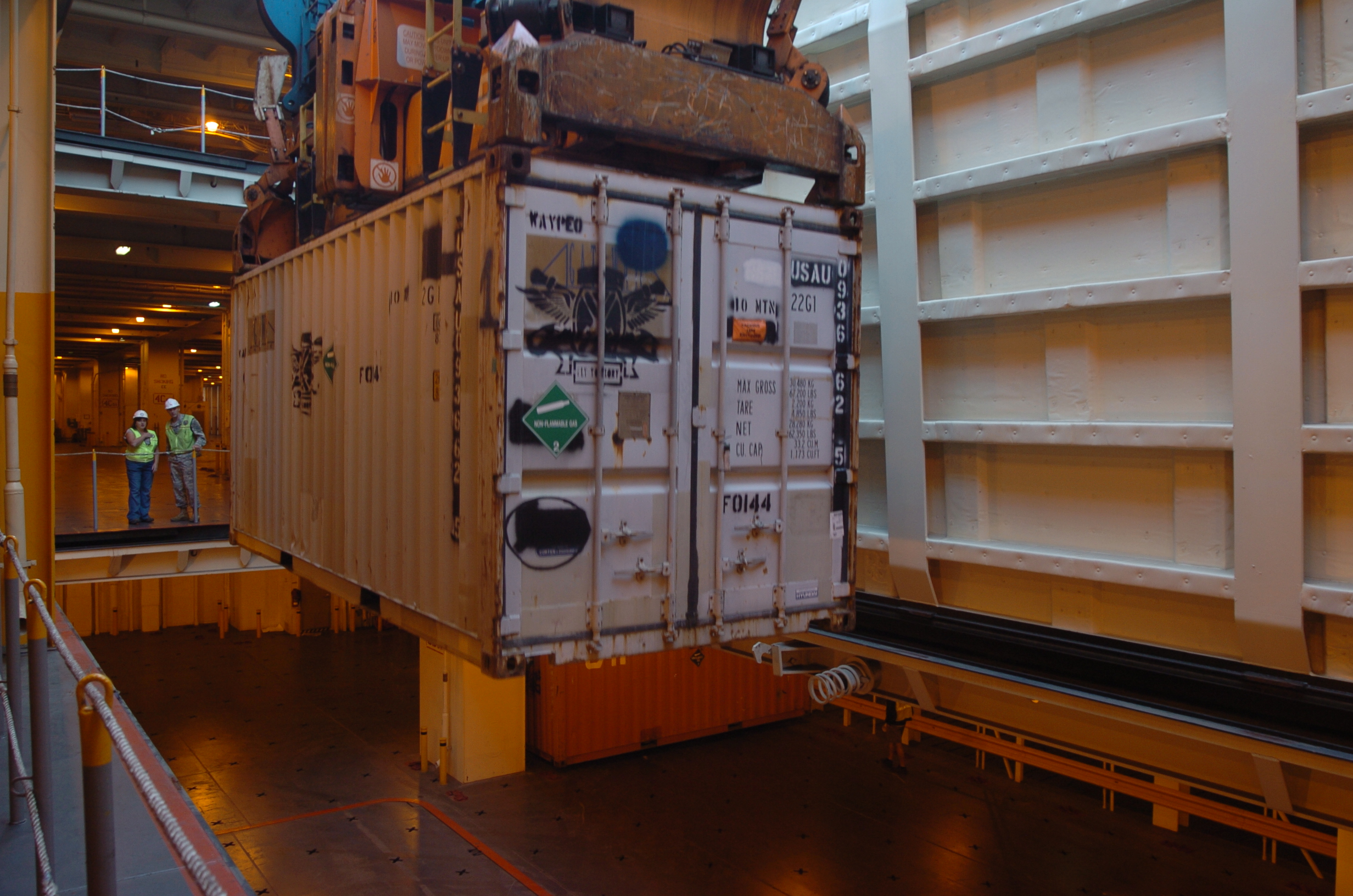 A cargo container bearing the stencil of 10th Combat Aviation Brigade is lowered into the hold of the USNS Soderman under the observation of Kristine Sports and Capt. Phil Raumberger, 841st Transportation Battalion.